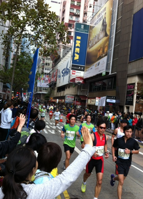 The crowd near the finishing line in Victoria Park at the 2012 Hong Kong marathon. - more Information